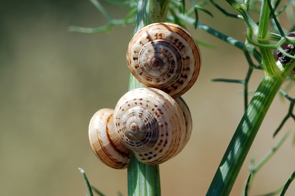 Theba pisana, Aigues-Mortes, Camargue, France